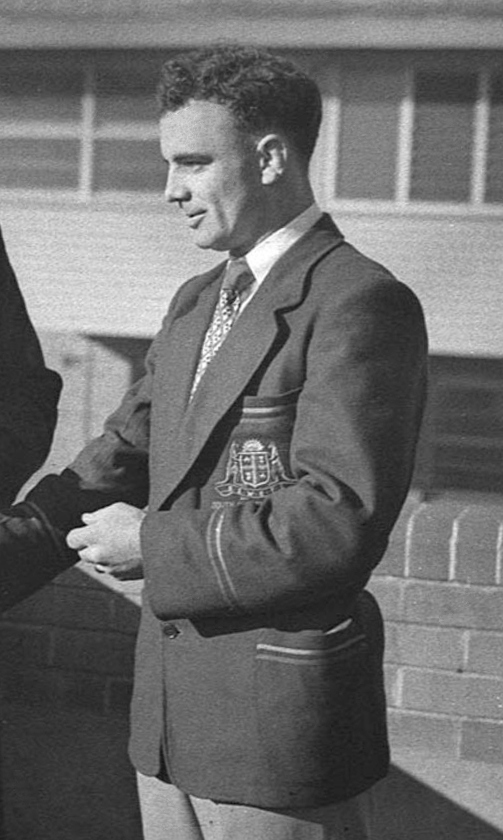 Clive Churchill, captain of Rugby League Kangaroos, at Marist Brothers, Hamilton, with principal Br. Anselm